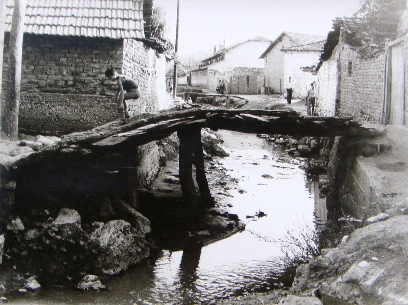 Serava river in Skopje, photo taken in the 1950s This media file is produced by Wikipedian in Residence in Category:Wikipedian in Residence at DARM in 2016.